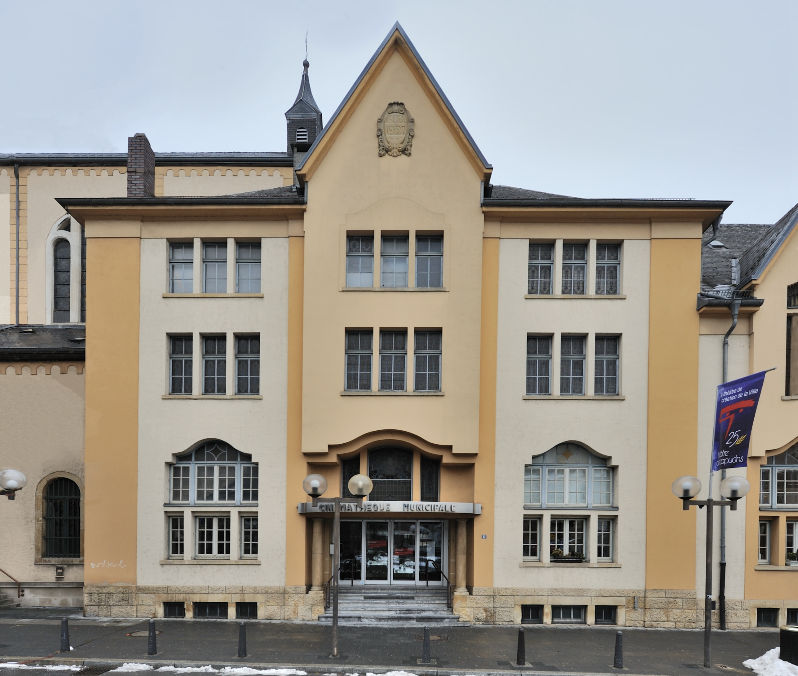 The film-library (cinémathèque) of the City of Luxembourg, place du Théâtre, in the centre of the City